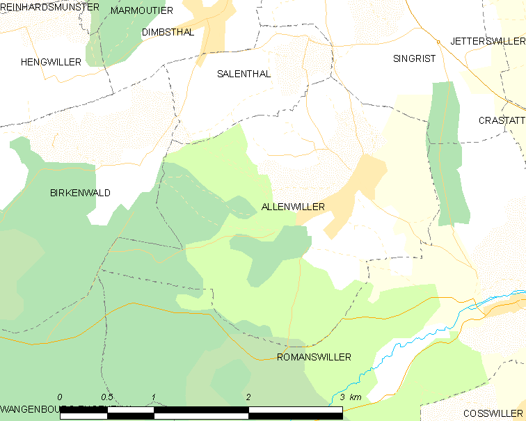 Map of French municipality